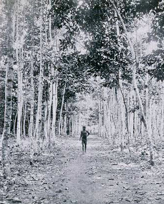 One of the communal rubber plantations [funtumia elastica], Benin city